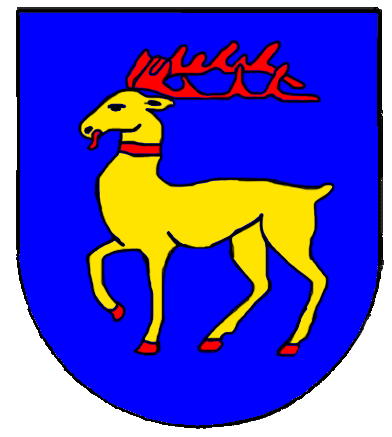 Granted in 1560. Revised in 1569, but reverted to original in 1944. I blått fält en gående hjort av guld med rött halsband och röd beväring. This depiction of a coat of arms is potentially not the same as the one used by the relevant municipality, authority or organisation. This heraldic coat of arms was drawn based on its written description called the blazon. Any illustration conforming with the insignia's written blazon is considered to be heraldically correct. In other words, there can exist several different artistic interpretations of the same coat of arms. The official illustration used by the municipality/authority/organisation is likely protected by copyright in which case it cannot be used here.